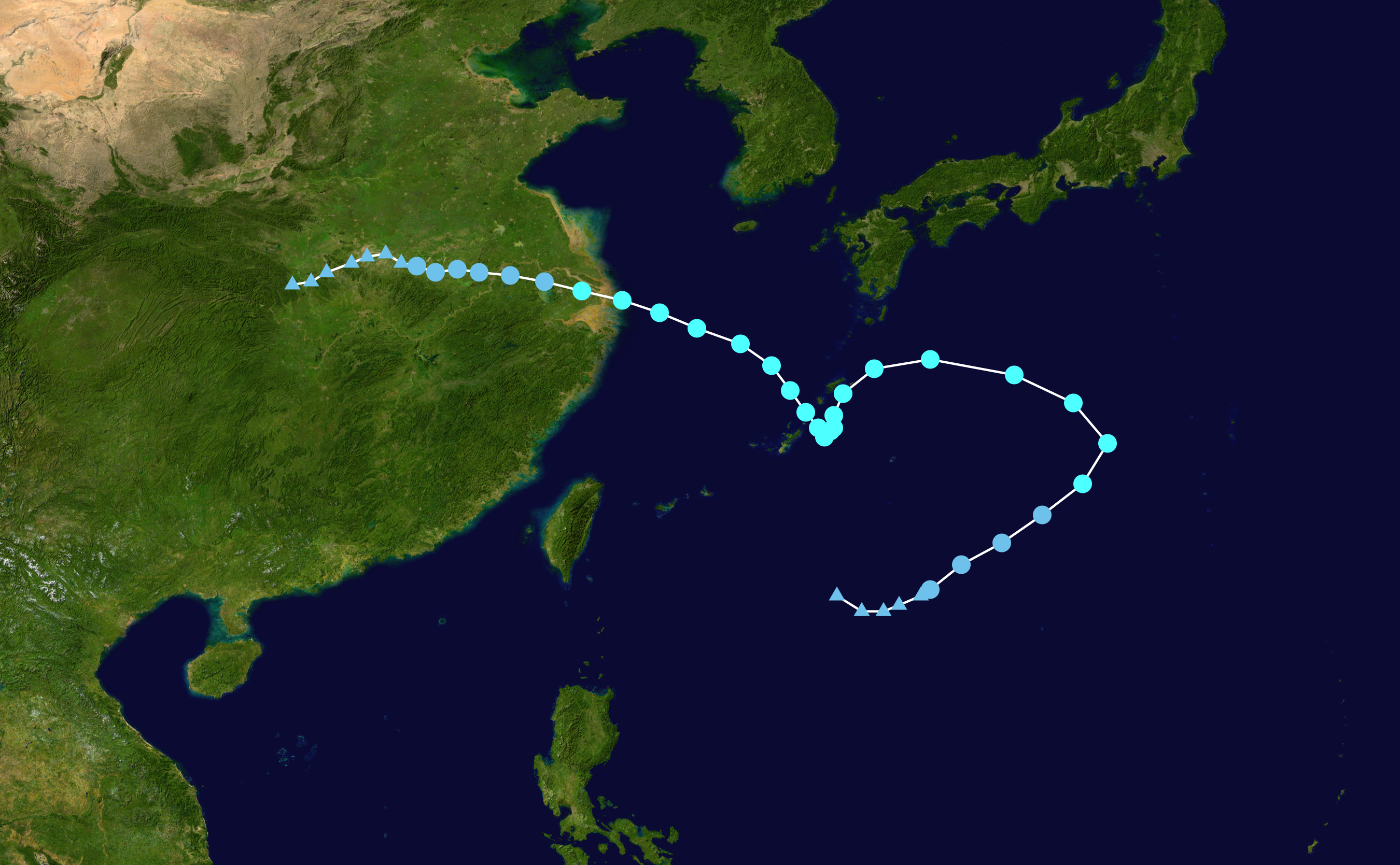 Tropical Storm Ken-Lola 1989 track. Uses the color scheme from the Saffir-Simpson Hurricane Scale.